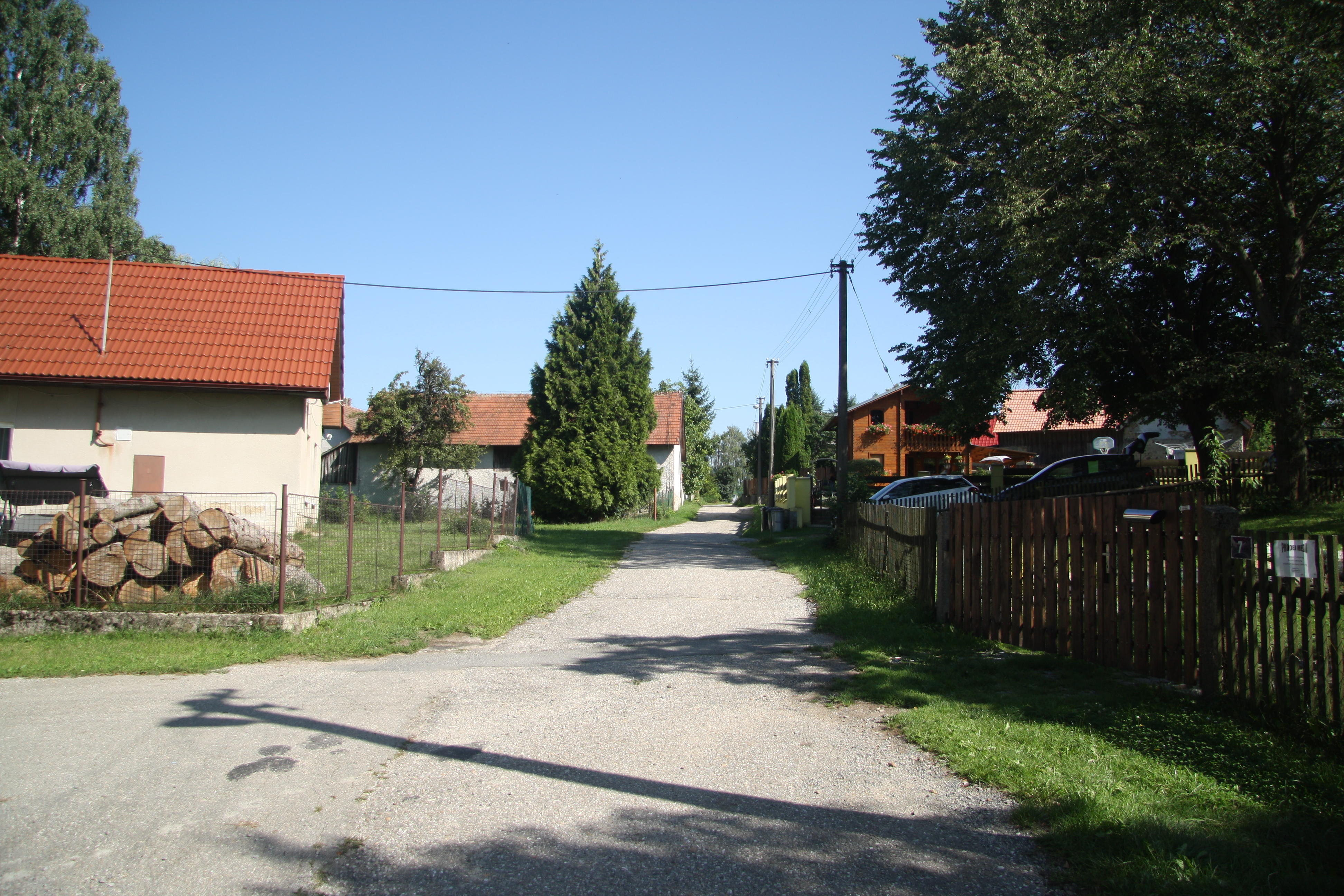 Road in Dubí, Herálec, Havlíčkův Brod District.